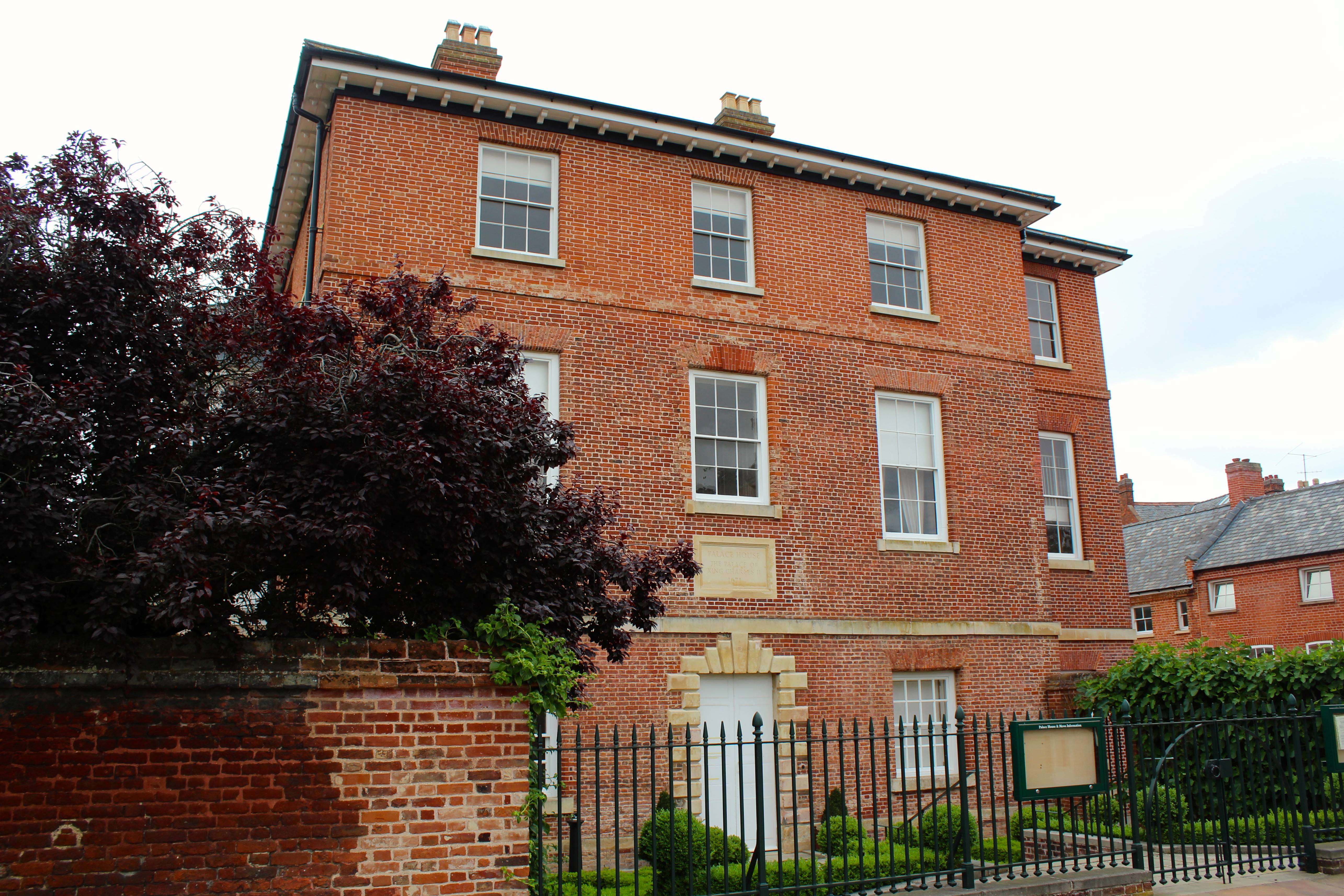 Part of the Home of Horseracing museum in Newmarket, Suffolk, UK